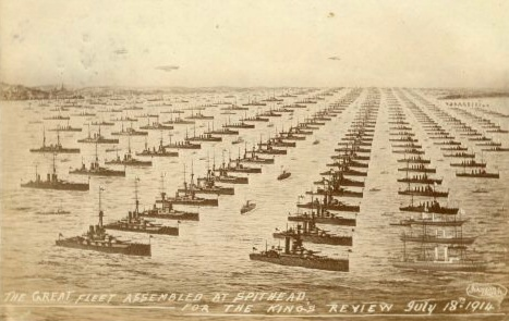 Postcard of the assembly of the Grand Fleet for the King's review (likely an artist's vision)